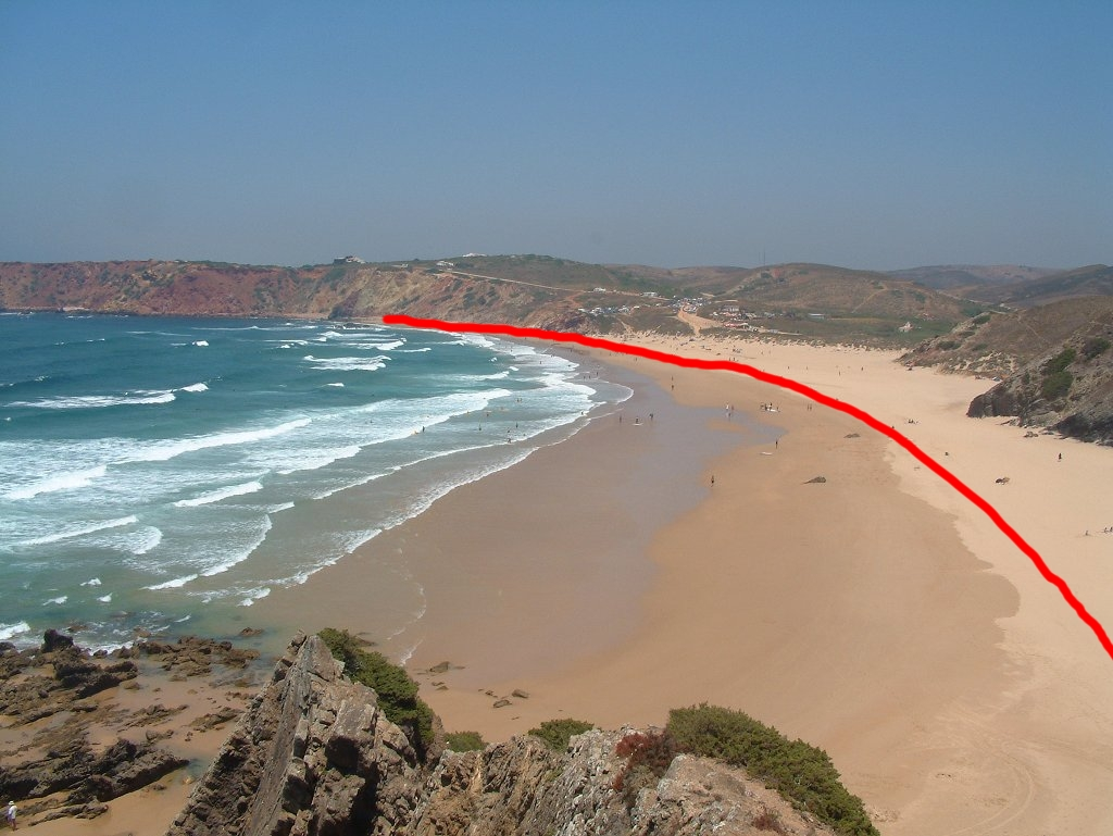 Coastline of Praia do Amado at the Atlantic coast of Southern Portugal